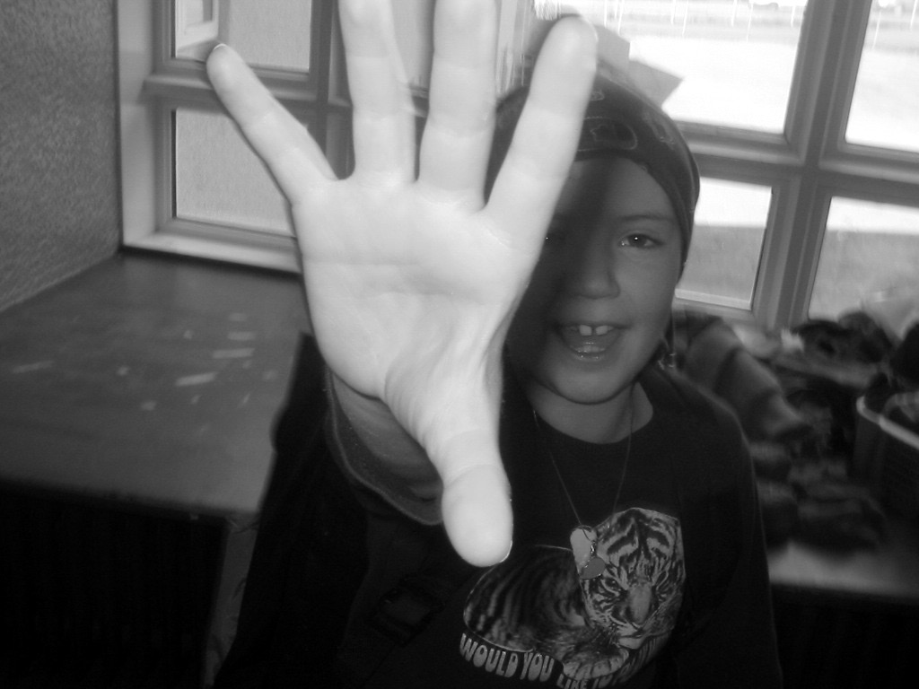 photo opportunity